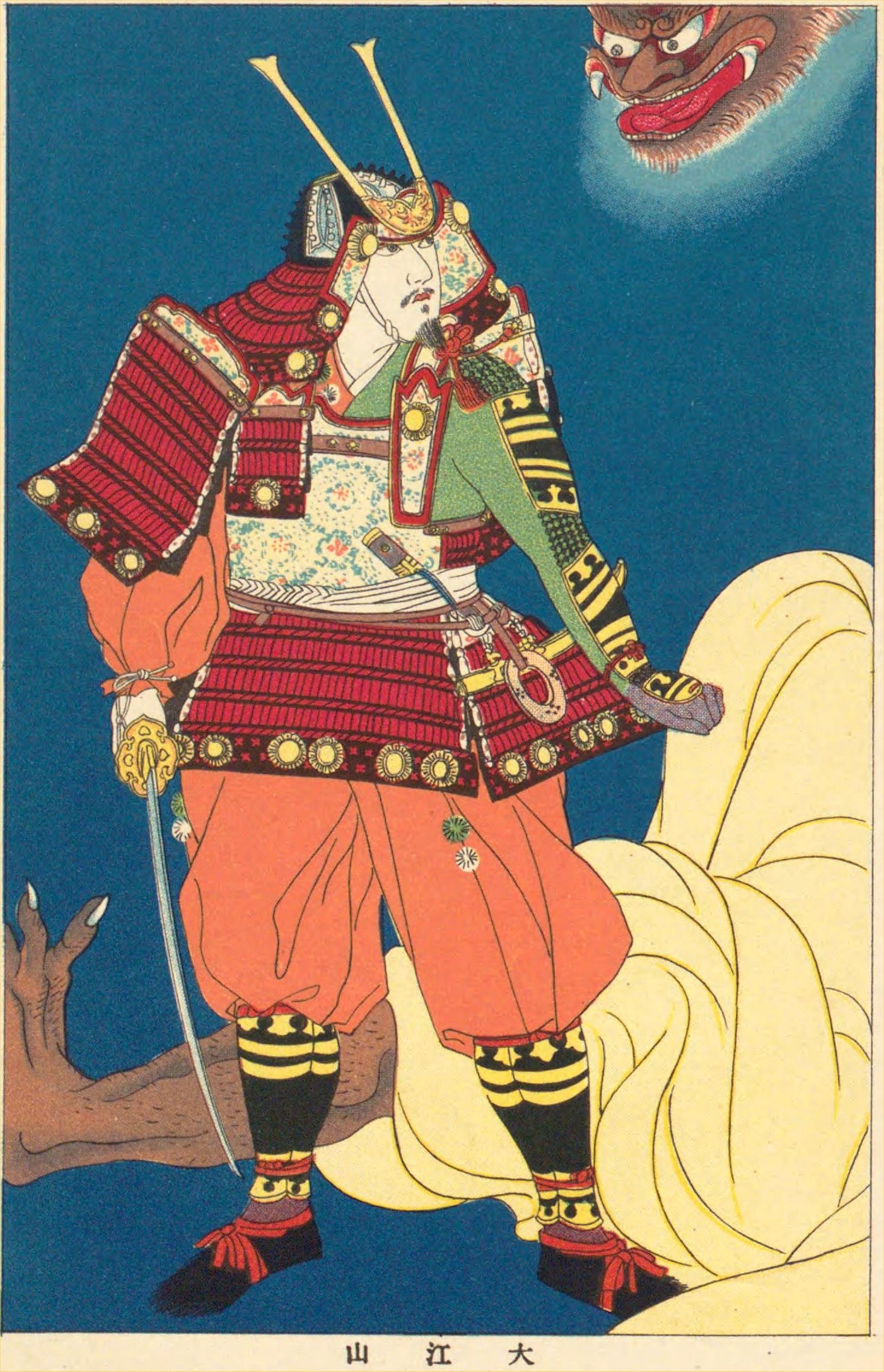 From the tale "Ōe-yama". The beheaded demon Shuten-dōji attacks Minamoto no Raikō in full armor.